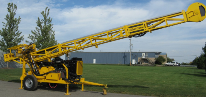 Core drill for core drilling operations in mining exploration.